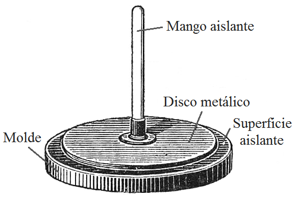 The electrophore is a device that can accumulate electric charges (electrons or protons) through a process of electrostatic induction. It was invented in 1762 by Johannes Carl Wilcke. Alessandro Volta in 1775 perfected.